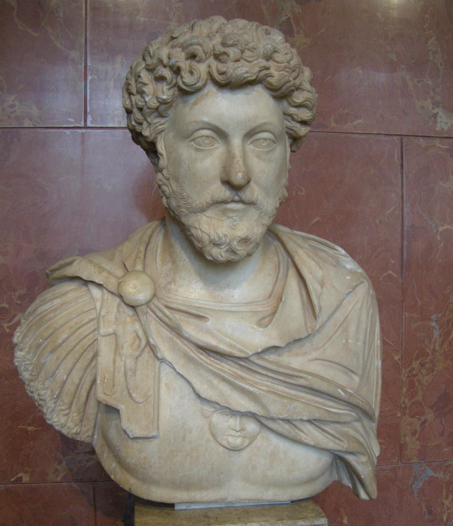 Portrait of Marcus Aurelius. Marble, Greek artwork of the Roman era, ca. 161 CE. From Probalinthos, Attica, Greece.